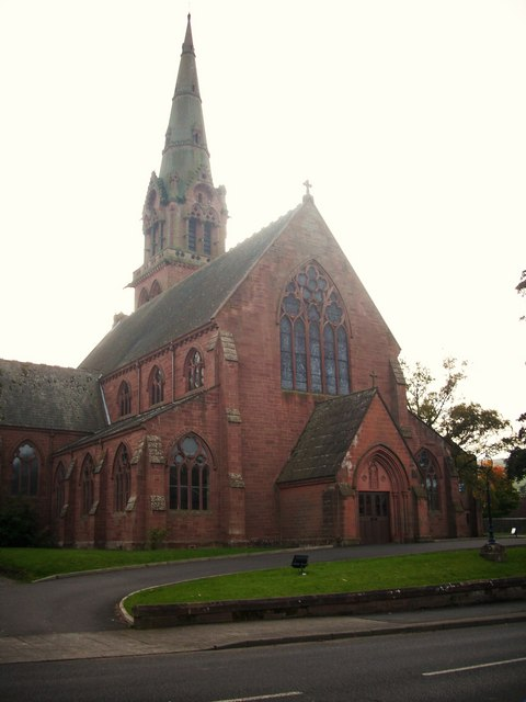 Old Parish and St Paul's Church, Scott Crescent, Galashiels, Selkirkshire